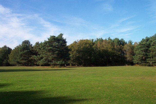 Meadow, Brownsea Island. One of several meadows on Brownsea Island. This one lies at the top of the side-track known as 'Silent Valley', where it joins the track along the cliffs above the south shore of the island.